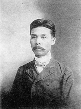 K. Nakamura, Superintendent of Dormitories.